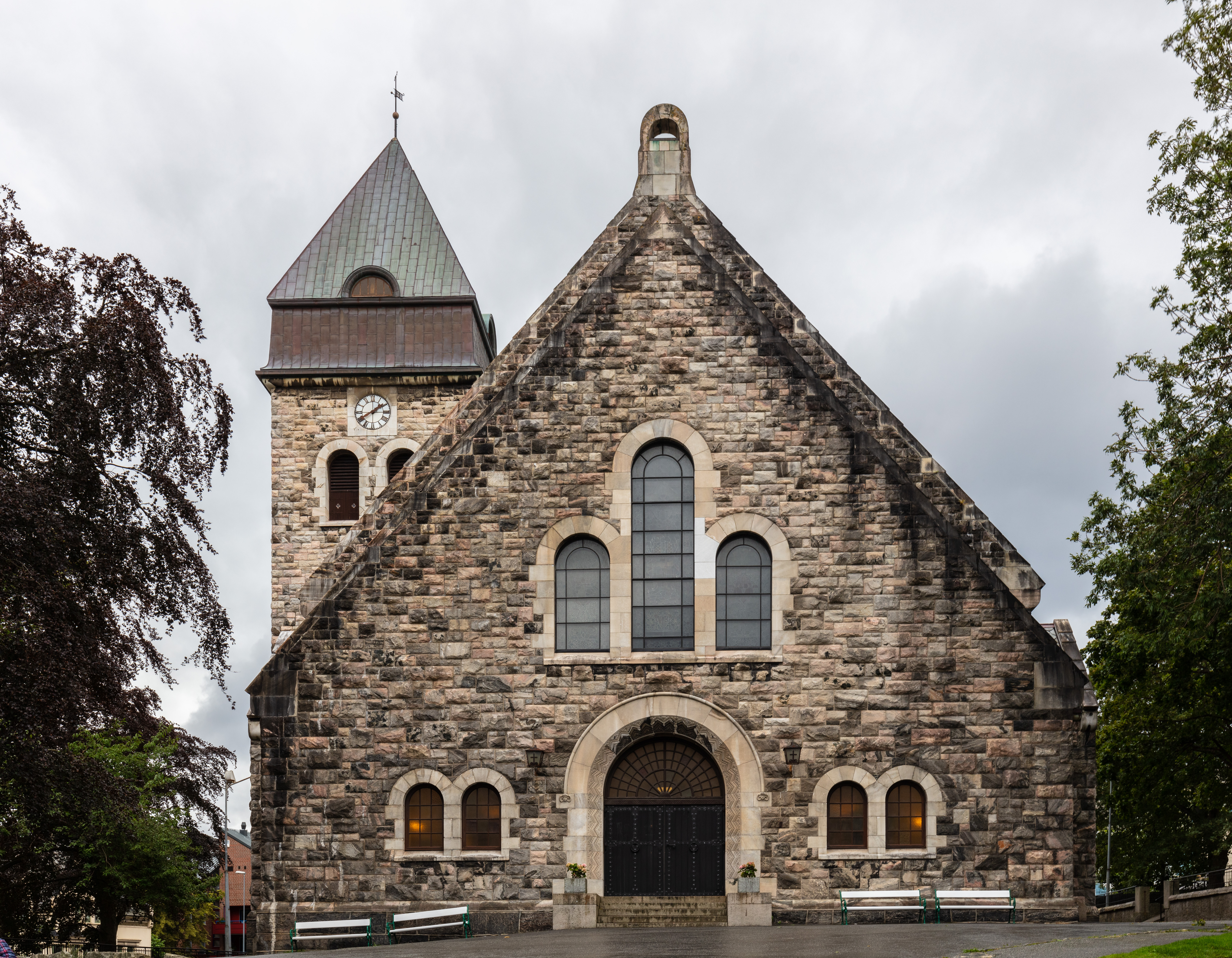 Church of Ålesund, Norway